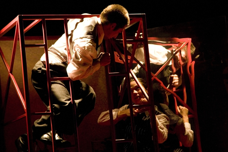 Romeo & Julia